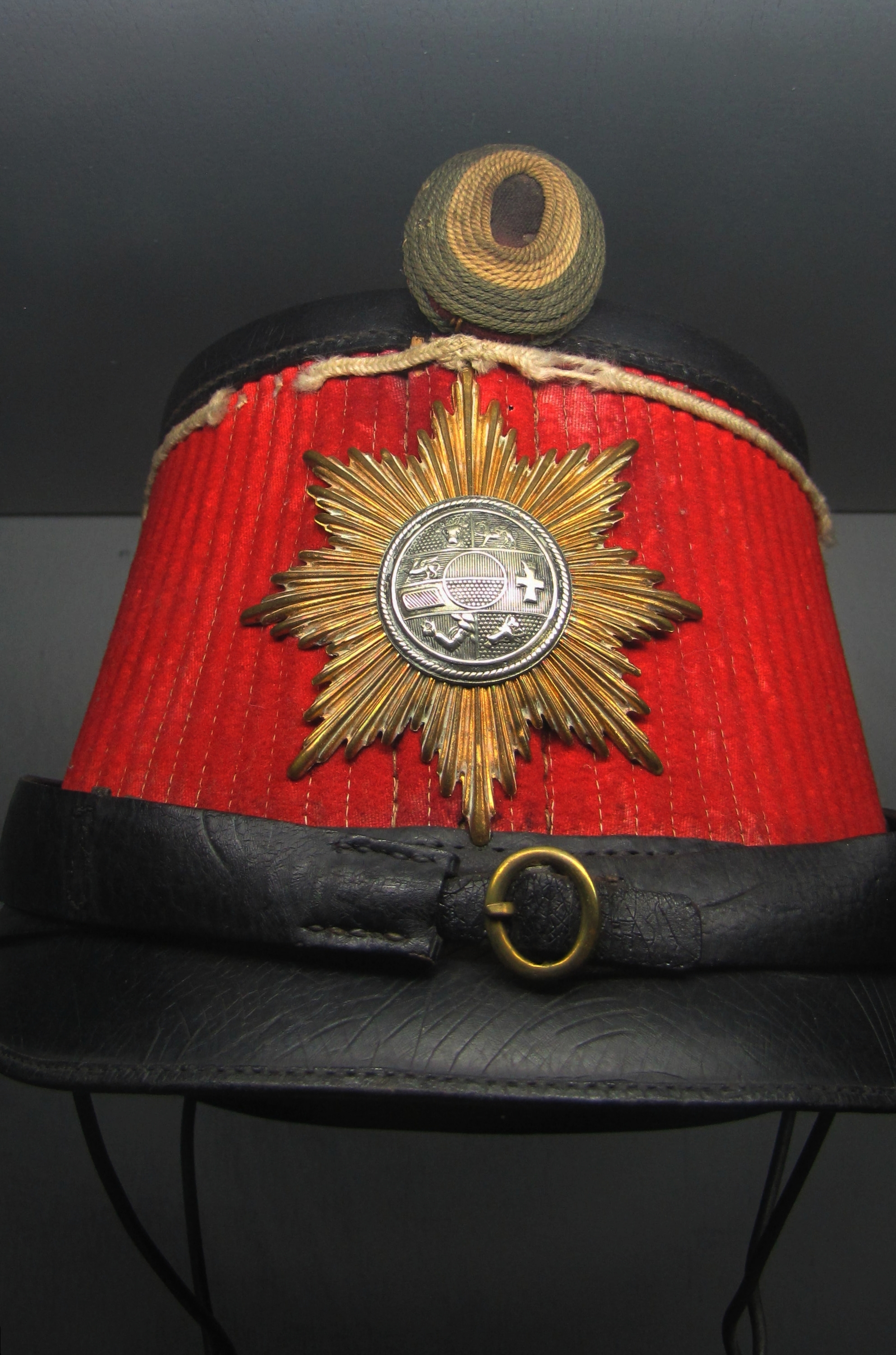 Tschako, part of Uniform of Mecklenburg-Strelitzsche Districts-Husaren in the Volkskundemuseum Schönberg